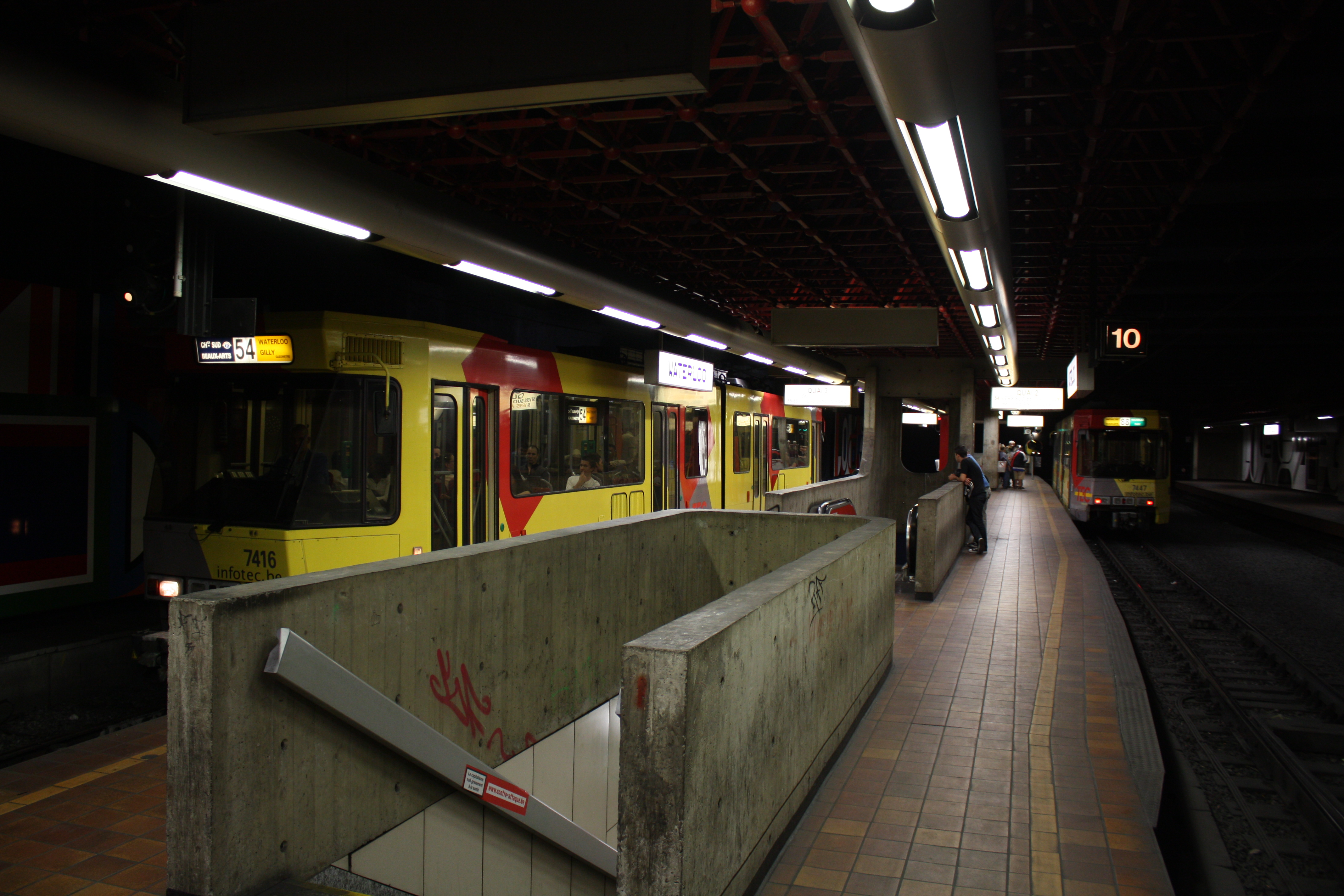 Waterloo station, showing tram 7416 towards Gilly working line 54 and tram 7447 working line 88 towards Anderlues Shot on 2009-09-19 on a tour of Charleroi's subway, kindly hosted by TEC-Charleroi.